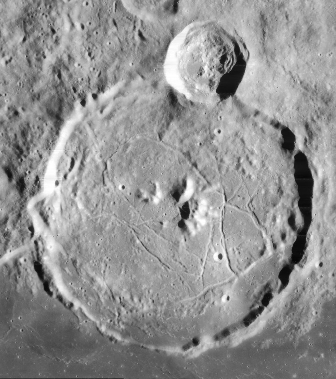 Crater Gassendi on the Moon.